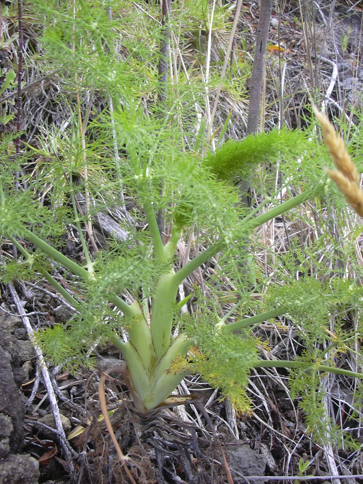 Foeniculum vulgare (habit). Location: Maui, Auwahi